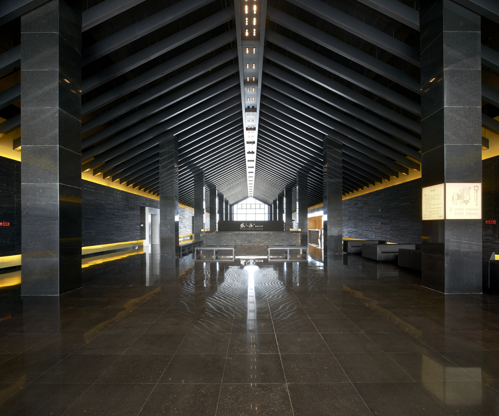 Qiqihar